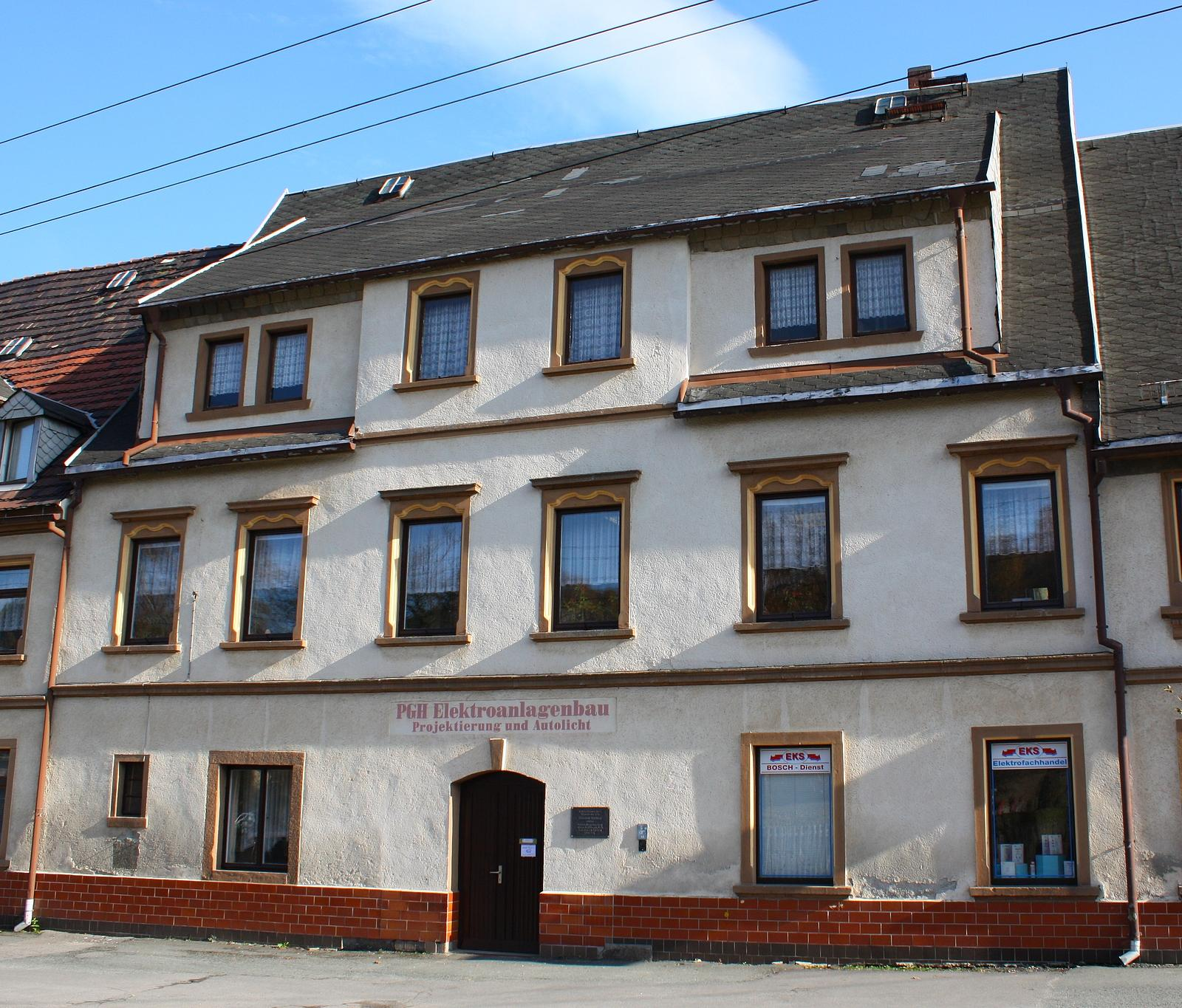 Birthplace of Elisabeth Rethberg: Schwarzenberg, Obergasse